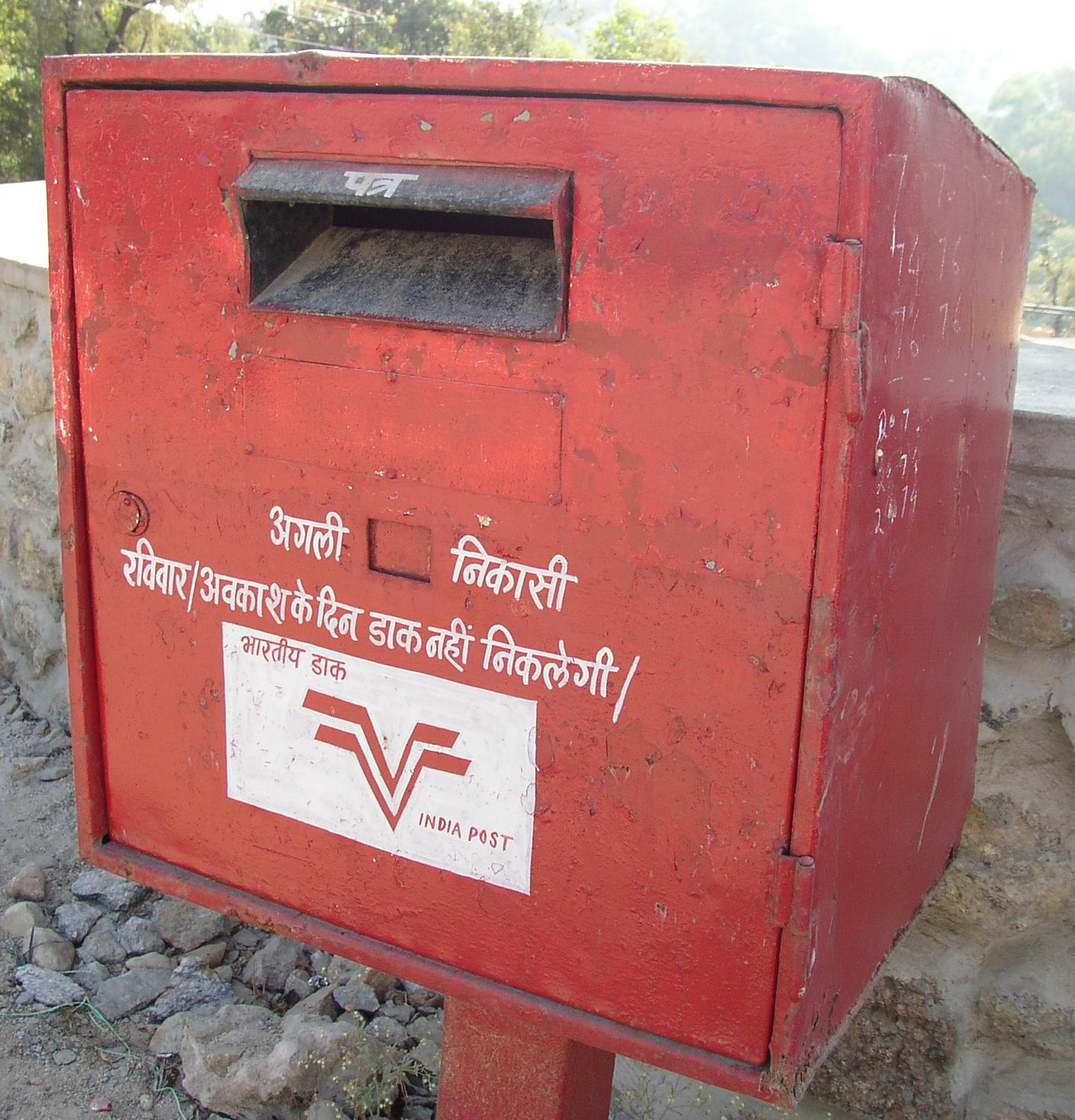 Mailbox in Mount Abu in Rajasthan, India